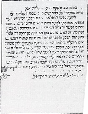 A slaughterer certificate from 1811 in Rome. The Rabbies say the man butchered several chickens and did not faint.